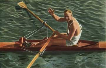 Australian-Canadian sculler Henry Robert "Bobby" Pearce